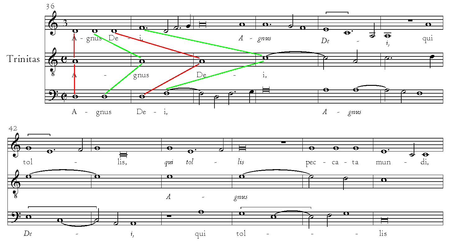 Showing mensuration canon (created by Jesse Rodin)